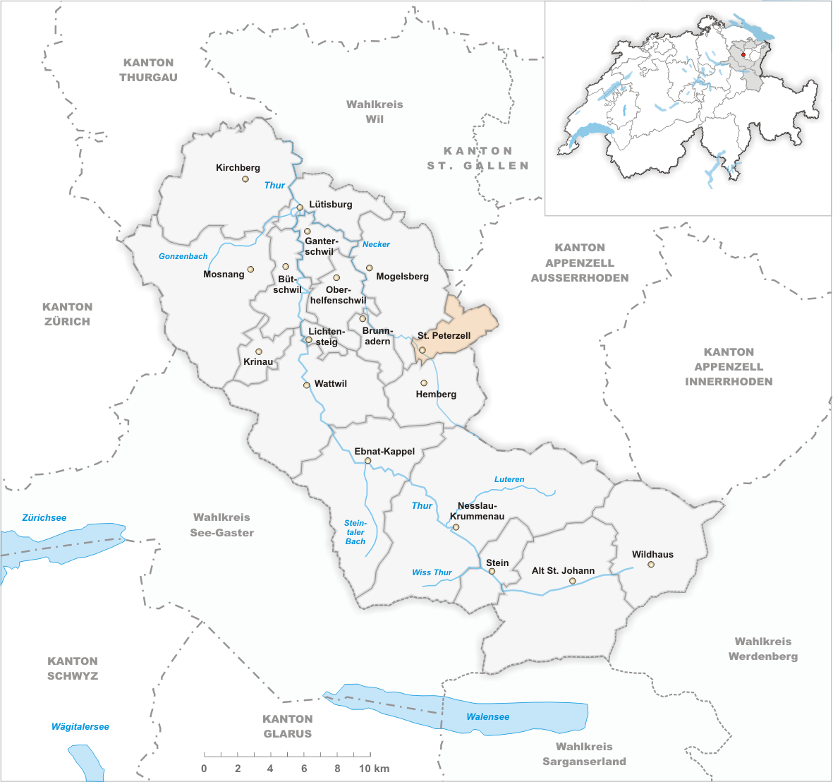 Municipality St. Peterzell